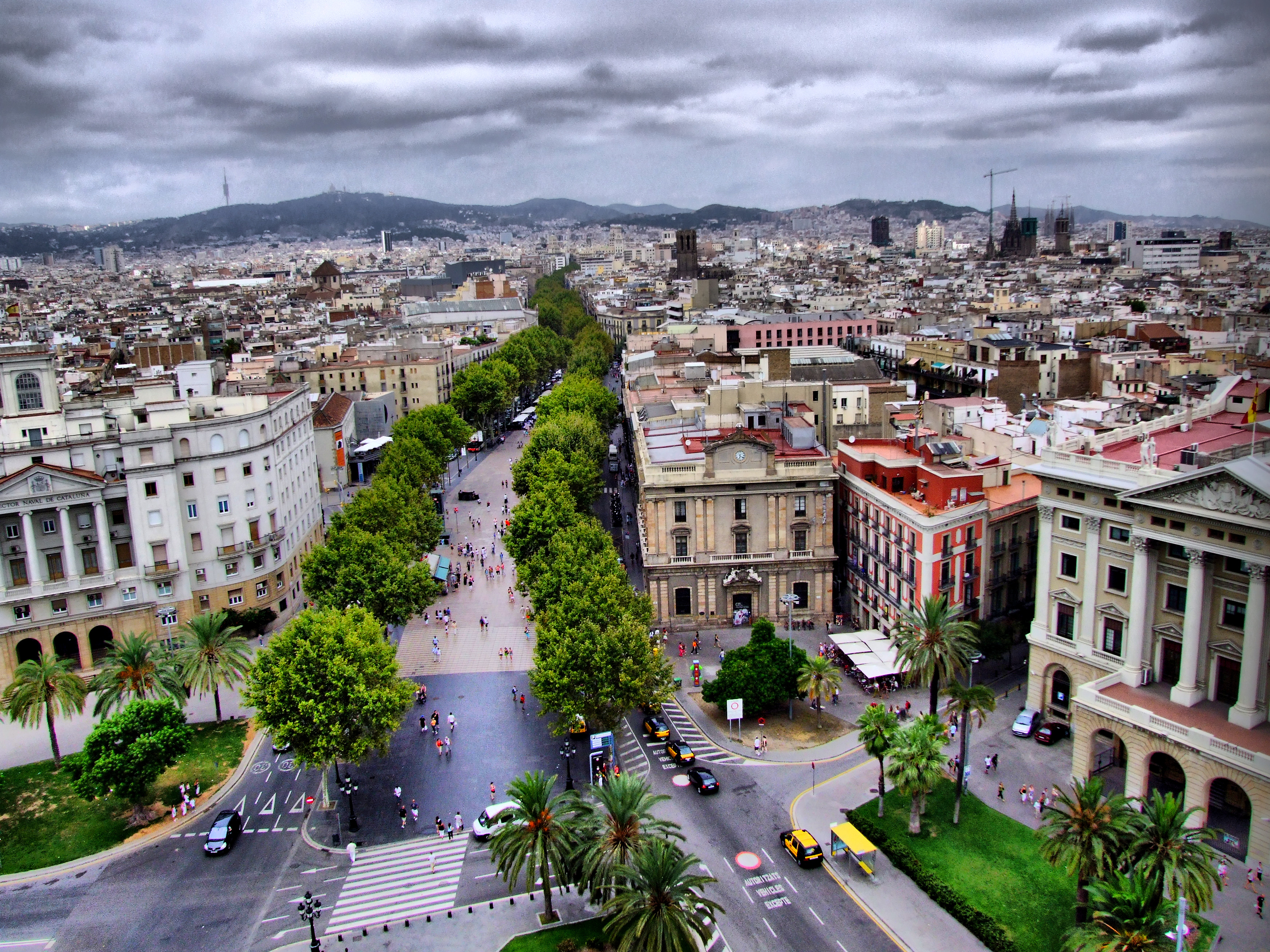 A shot of Barcelona north-east from the top of the Columbus column.